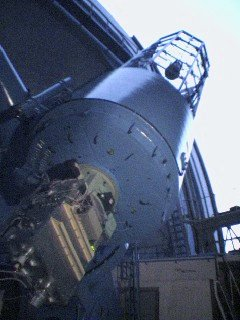 188cm telescope in Okayama Astrophysical Observatory, Japan.